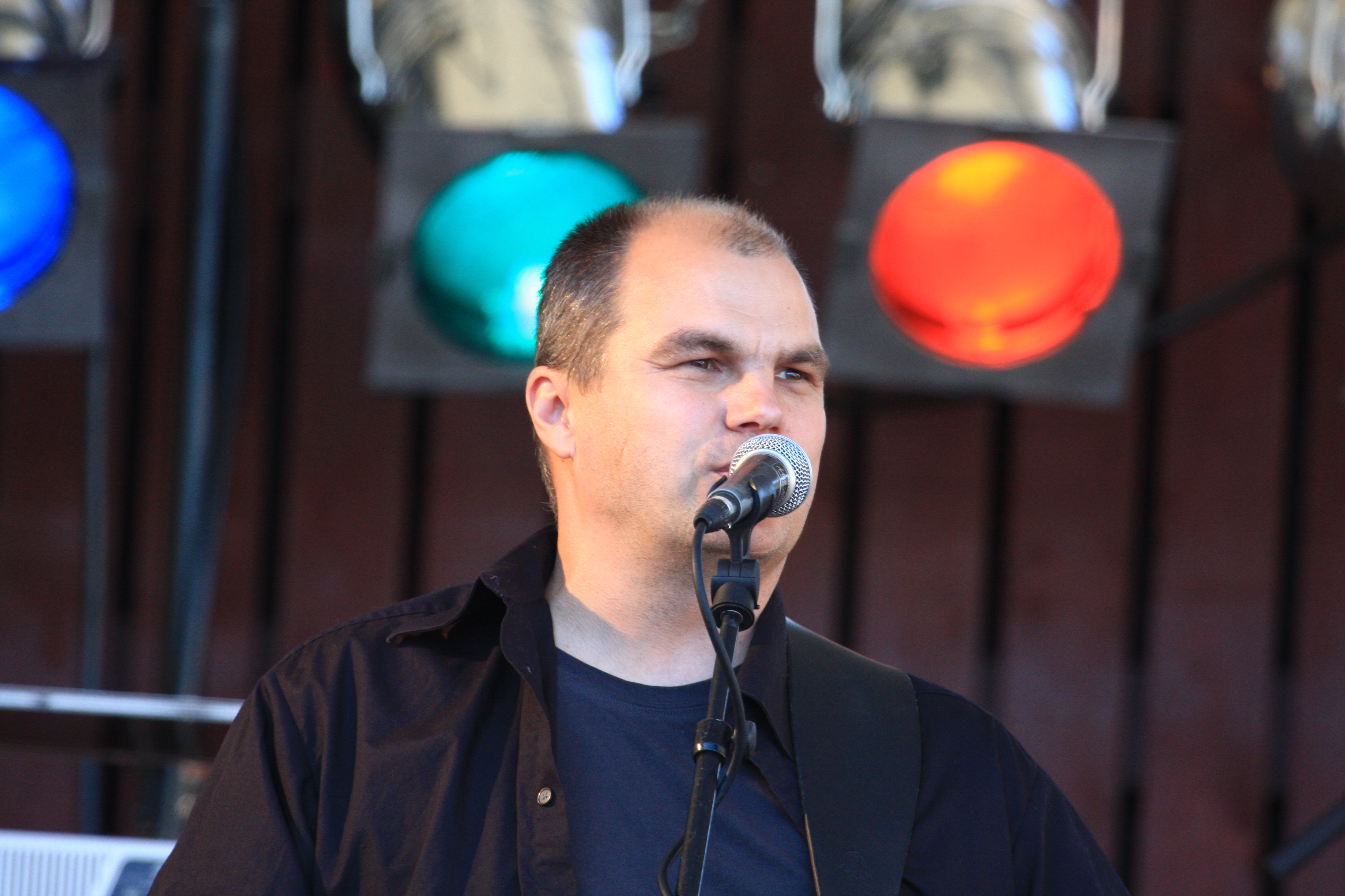 Ari Laaksonen from Miljoonasade-group